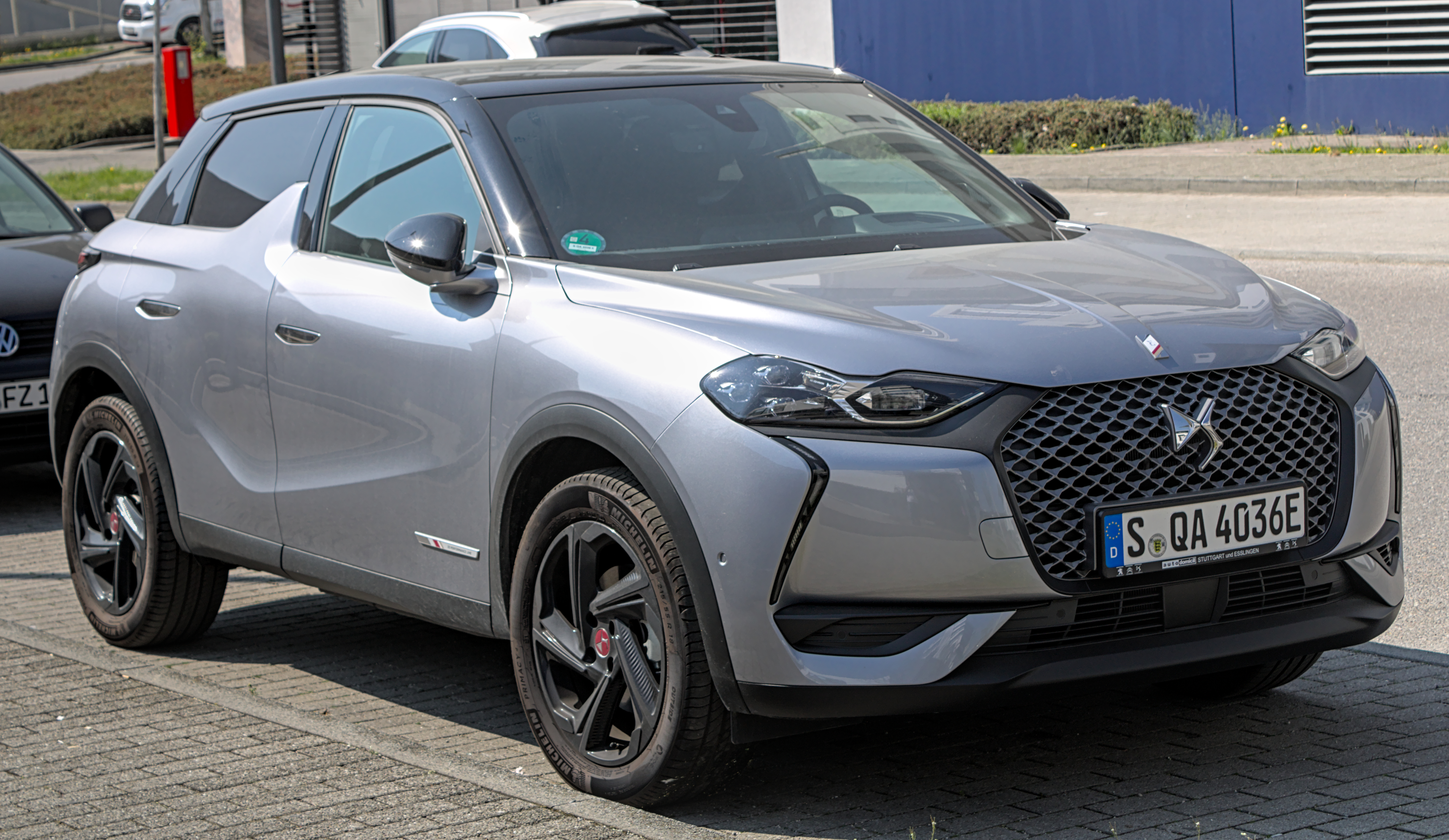 DS_3_Crossback_E-Tense in Stuttgart